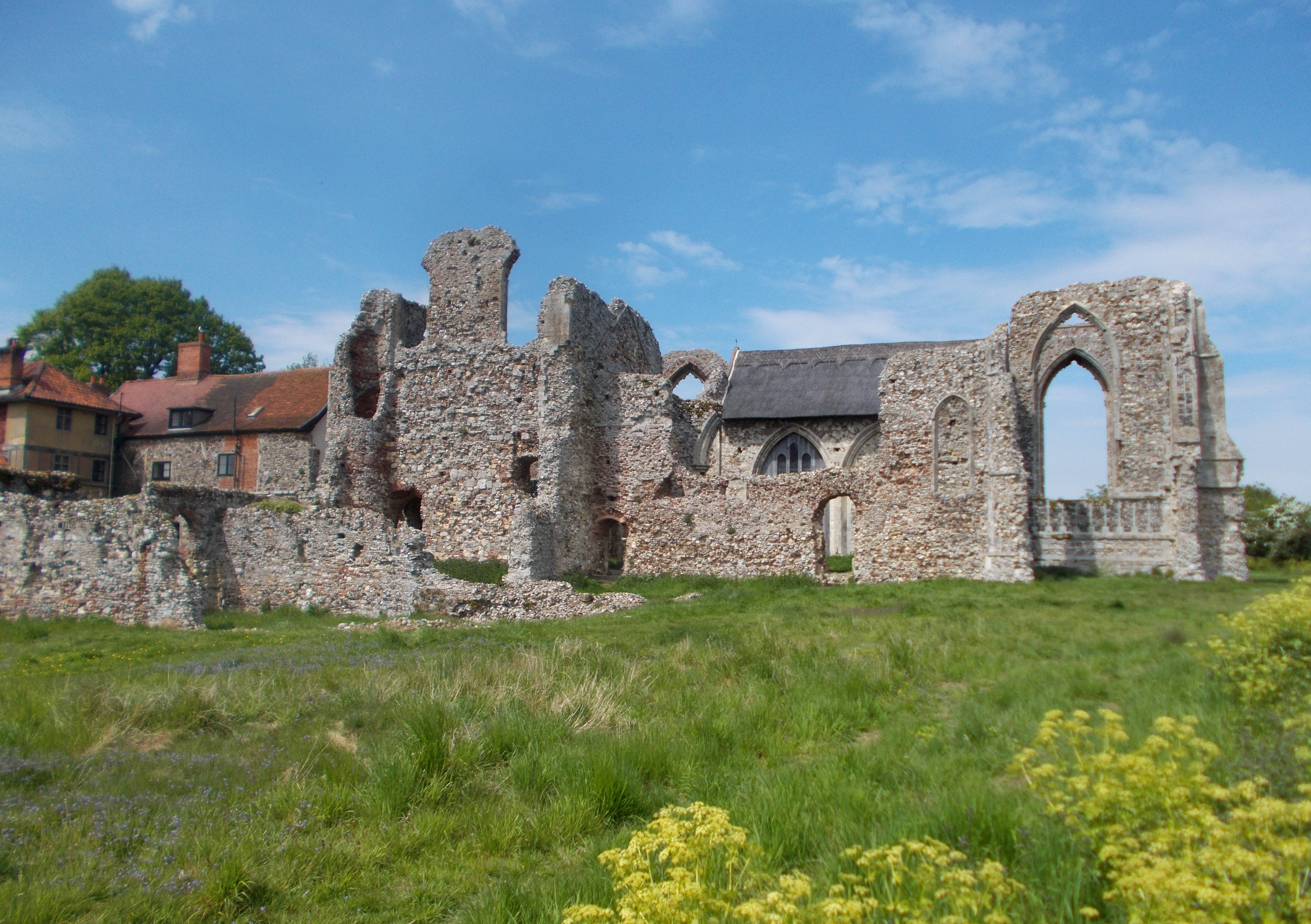 Leiston Abbey: ruins of the chapter house (left), the south aisle and east end of the church (from the south)